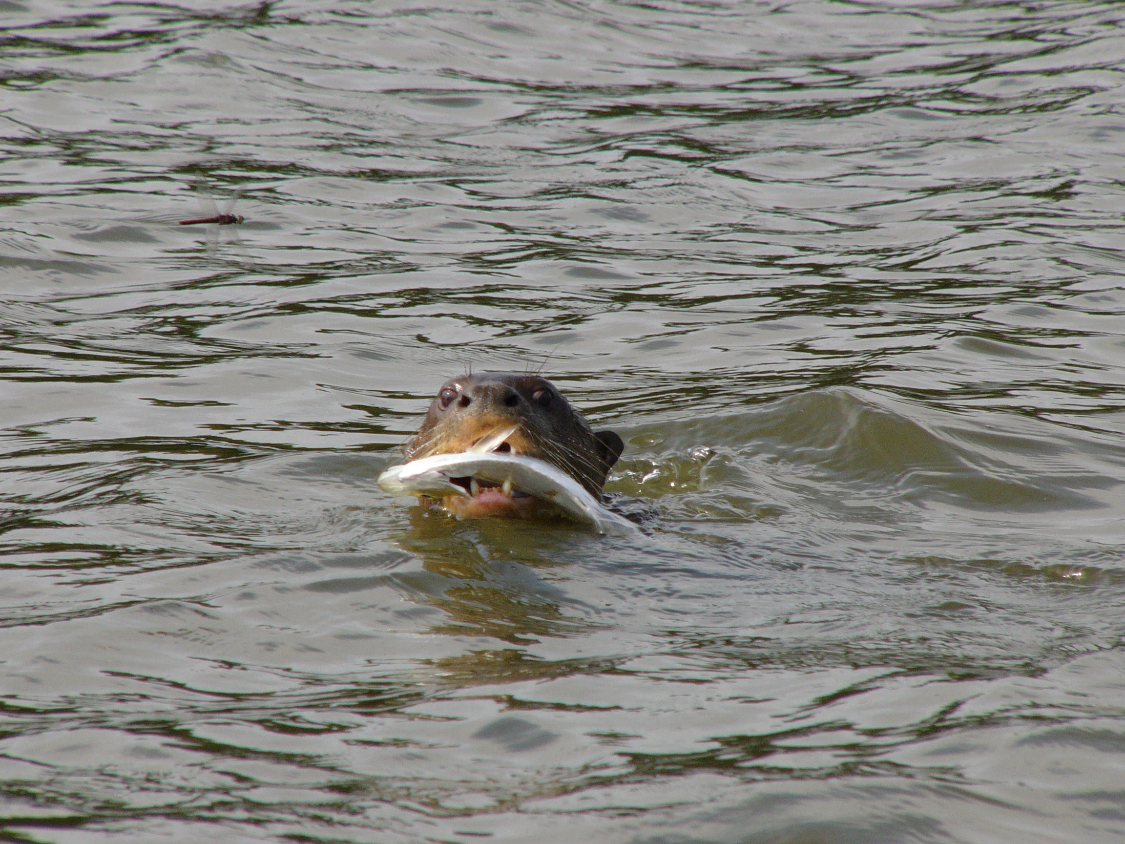 Pteronura brasiliensis, Lake Sandoval, Peru